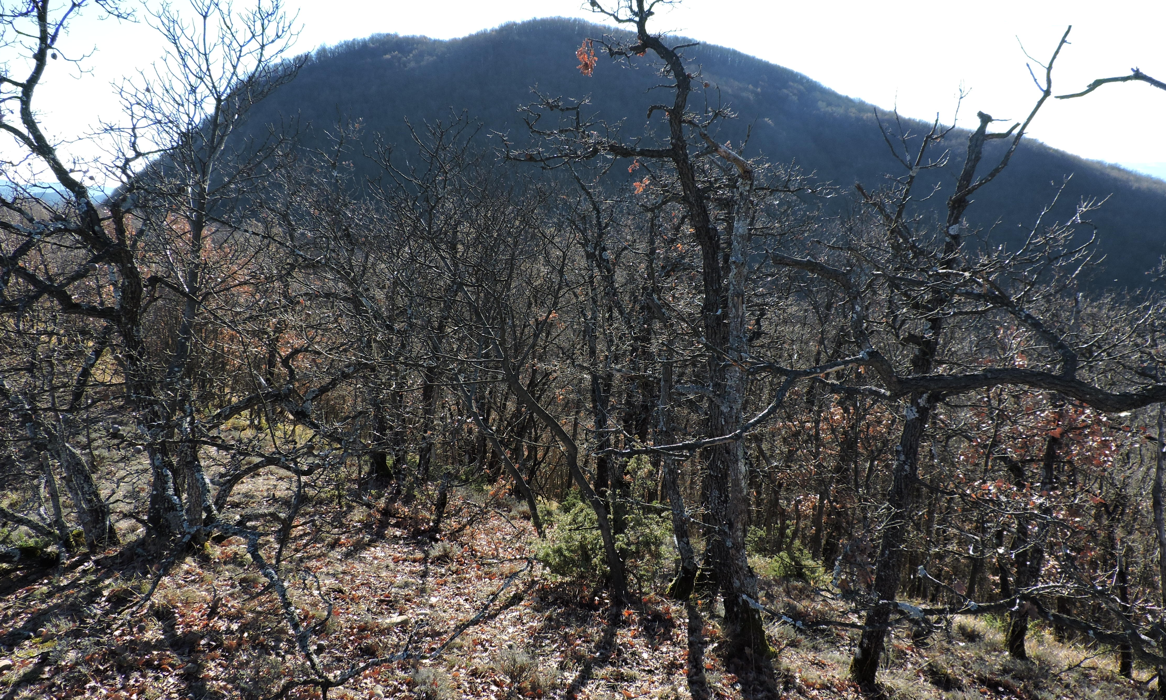 Monte Gavasa (Ligurian Apennine) north slopes